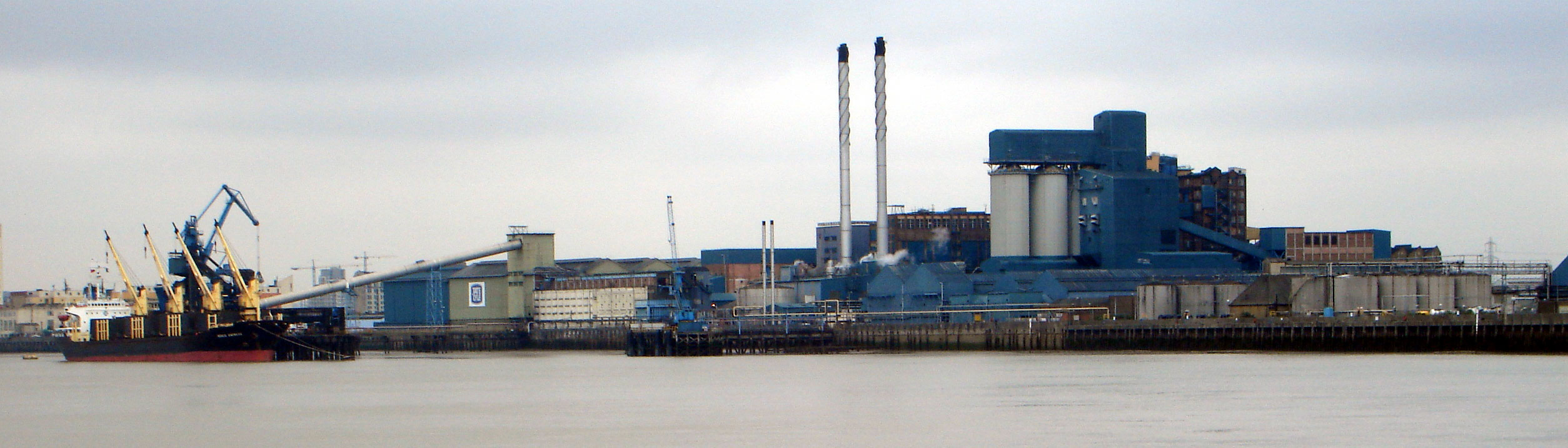 Tate & Lyle processing plant at Silvertown, London, UK. Photo taken by me 19:22, 21 April 2006 (UTC)